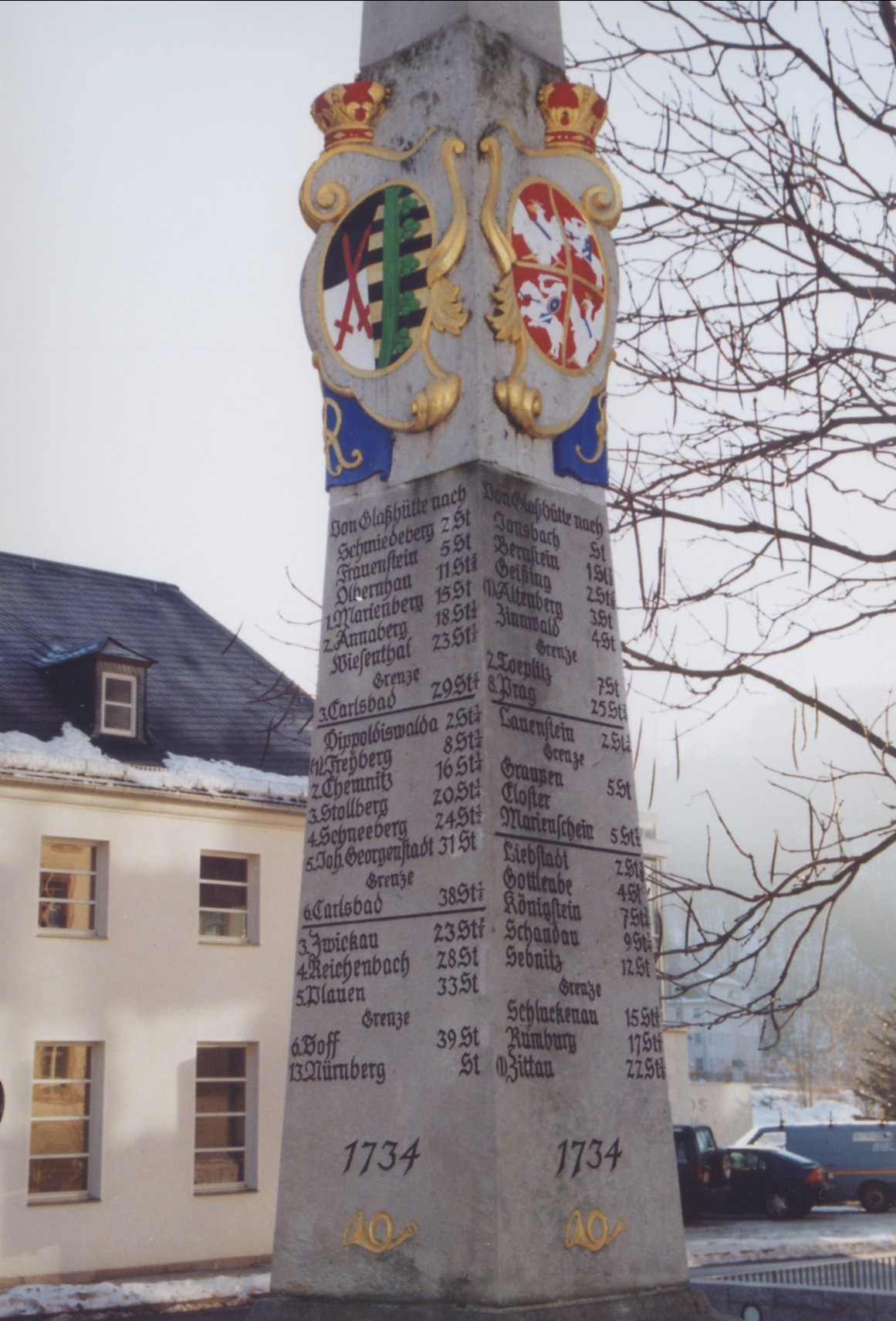 Glashütte: The electoral saxonian coat of arms and the table of distances on the post mile pillar from 1734. The distances are expressed as "hours" (one hour is equivalent to 4,531 km).